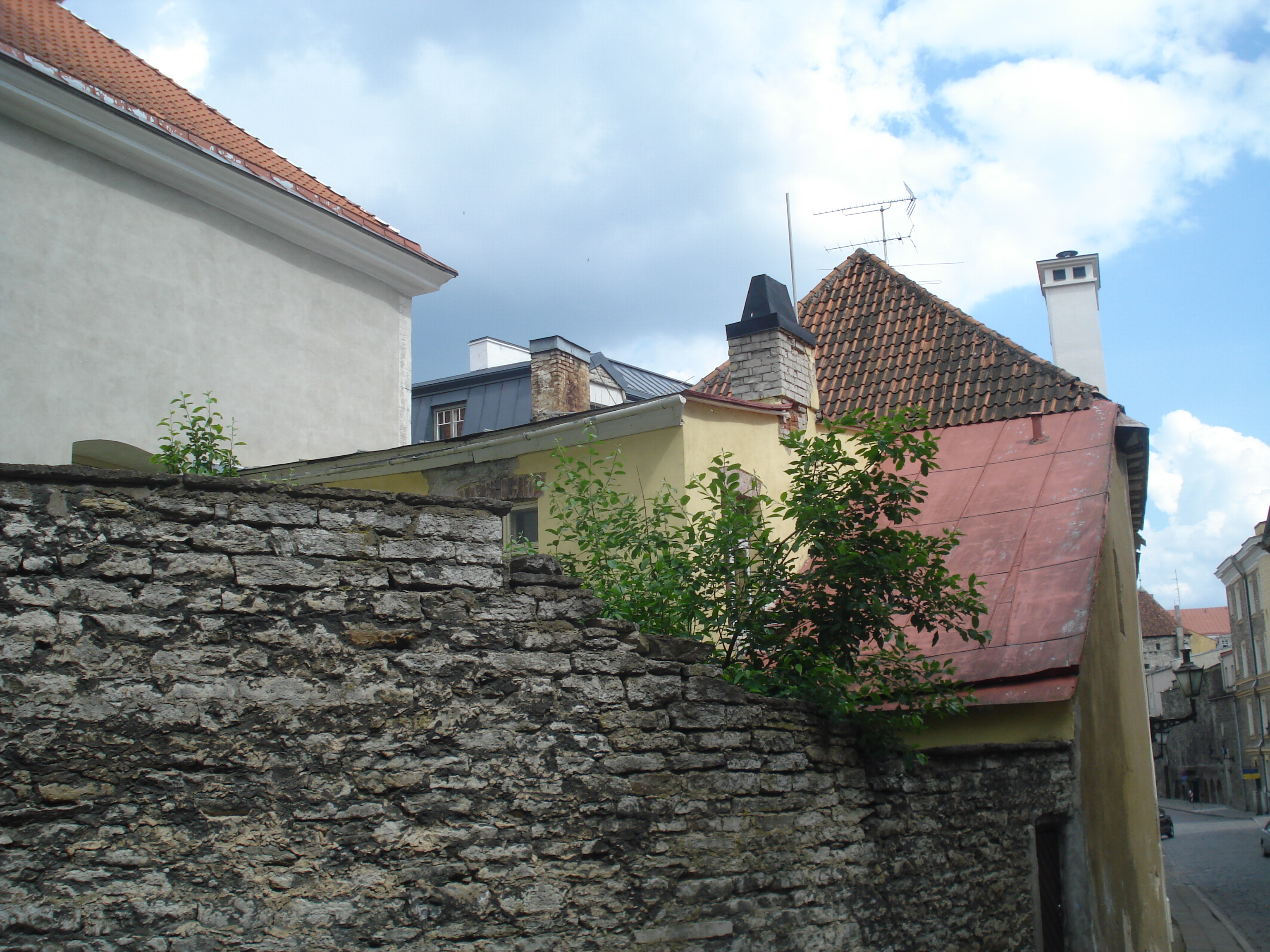 Rüütli street in Tallinn